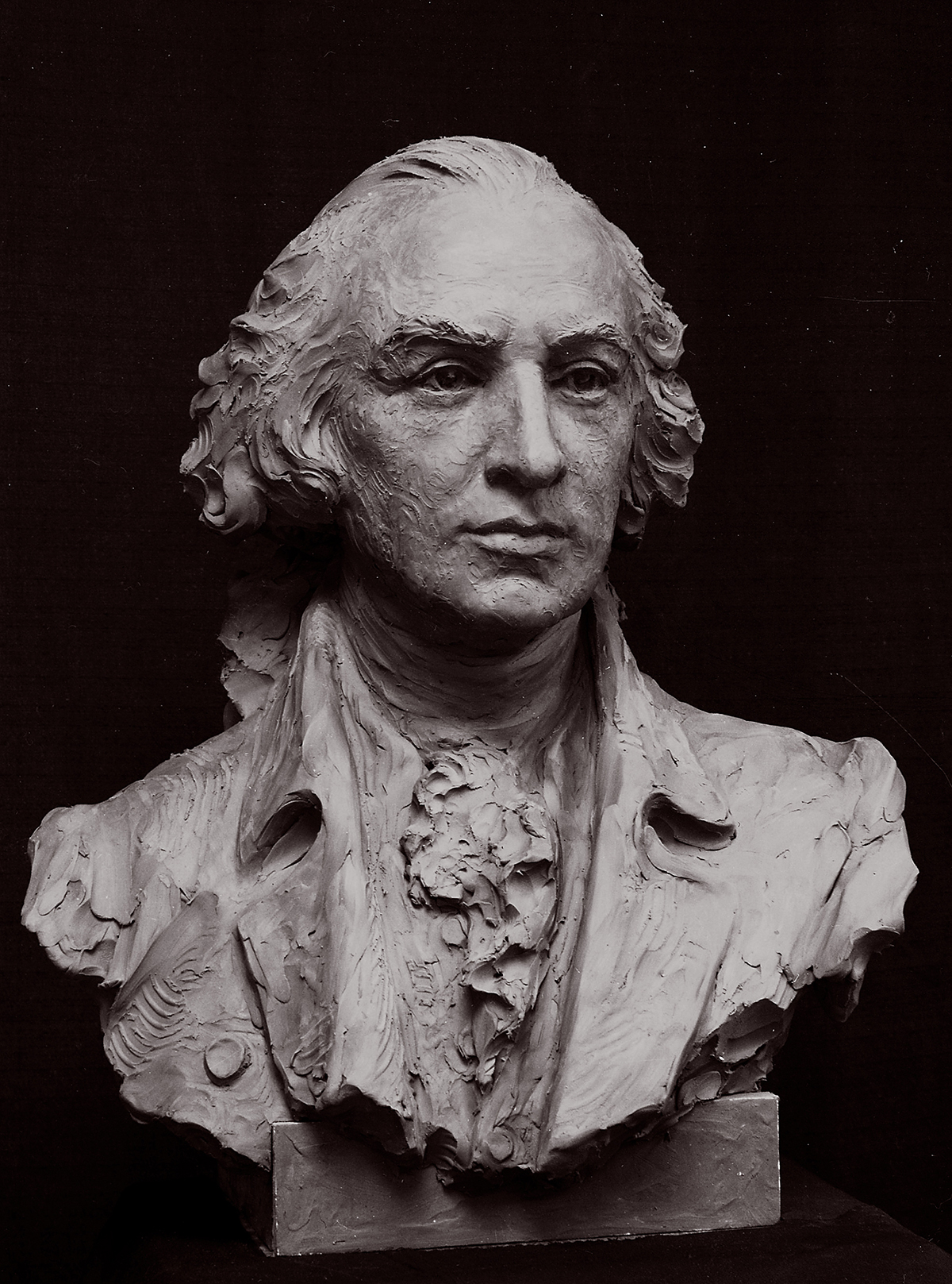 James Madison. A president of the United States. This portrait was placed at the Madison Elementary School in Salt Lake City, UT. Bust was sculpt by Avard T. Fairbanks, 1969. Photograph was used in the book "Creating a Portrait in Sculpture, featuring George Washington sculptures created by Avard T. Fairbanks."